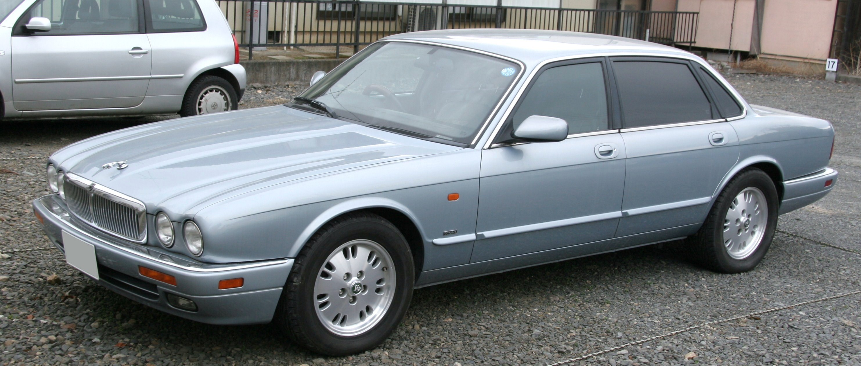 Jaguar XJ6